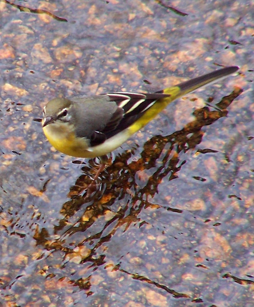 Grey Wagtail Motacilla cinerea, Hong Kong, China